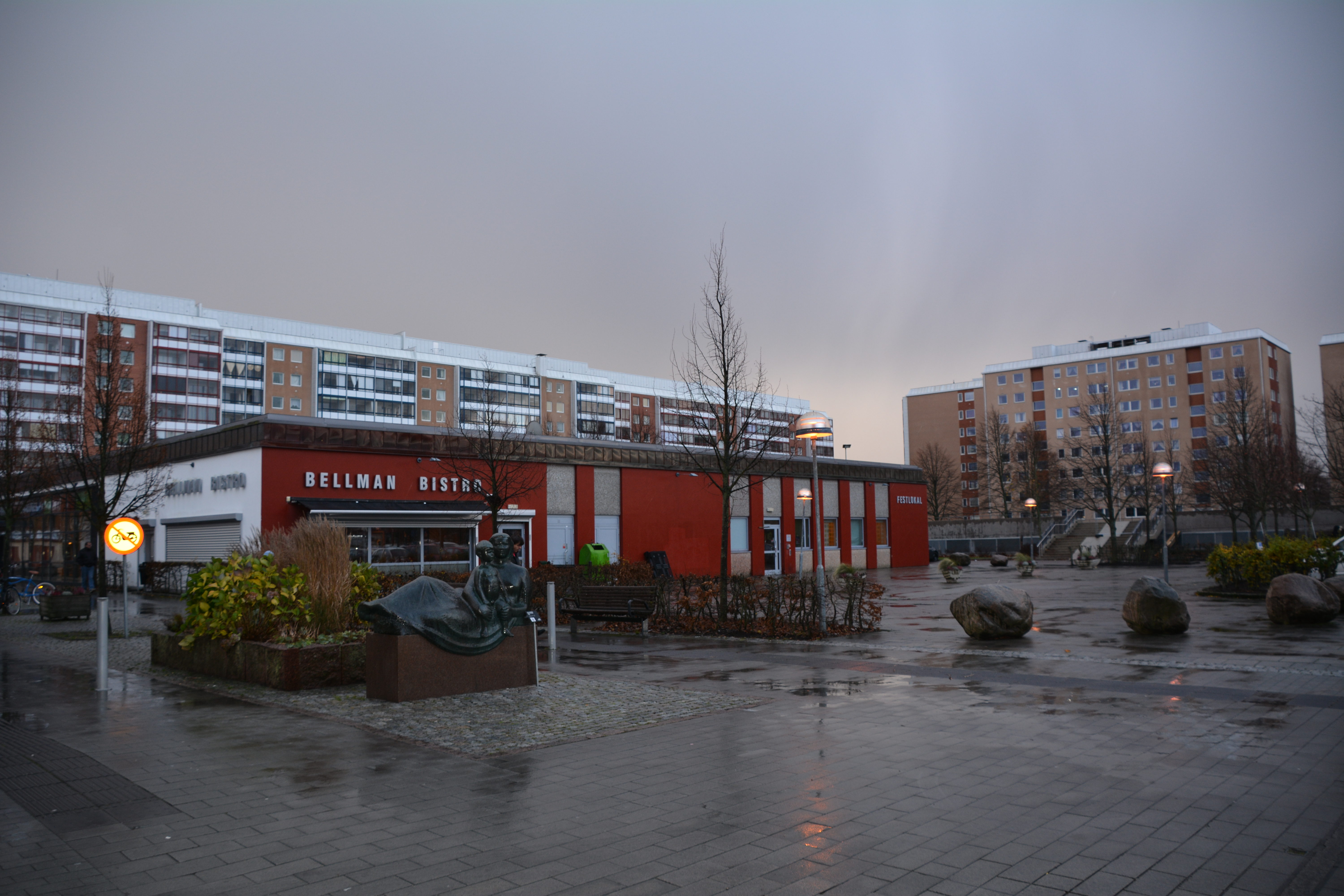 Andersberg centre, Halmstad, Sweden